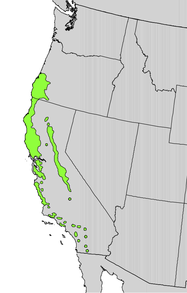 Range map of Umbellularia californica